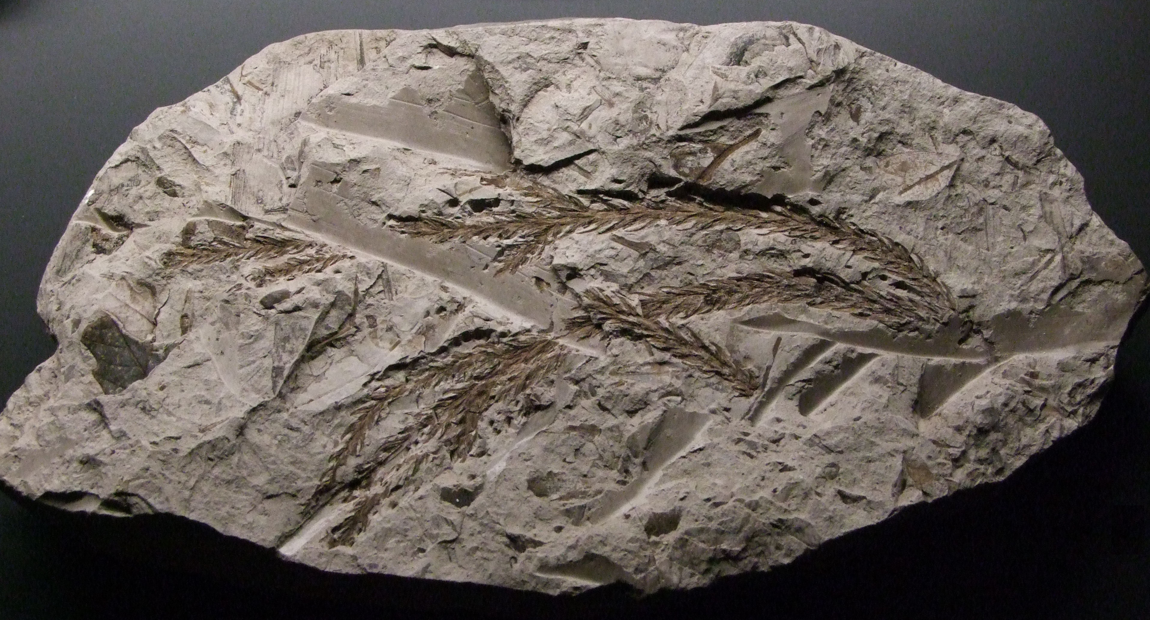 Leaves of Doliostrobus (Cupressaceae) from the Geiseltal fossil site in the Exhibition "Climate Powers - Driving Force of Evolution" in the State Museum of Prehistory in Halle/Saale, Germany